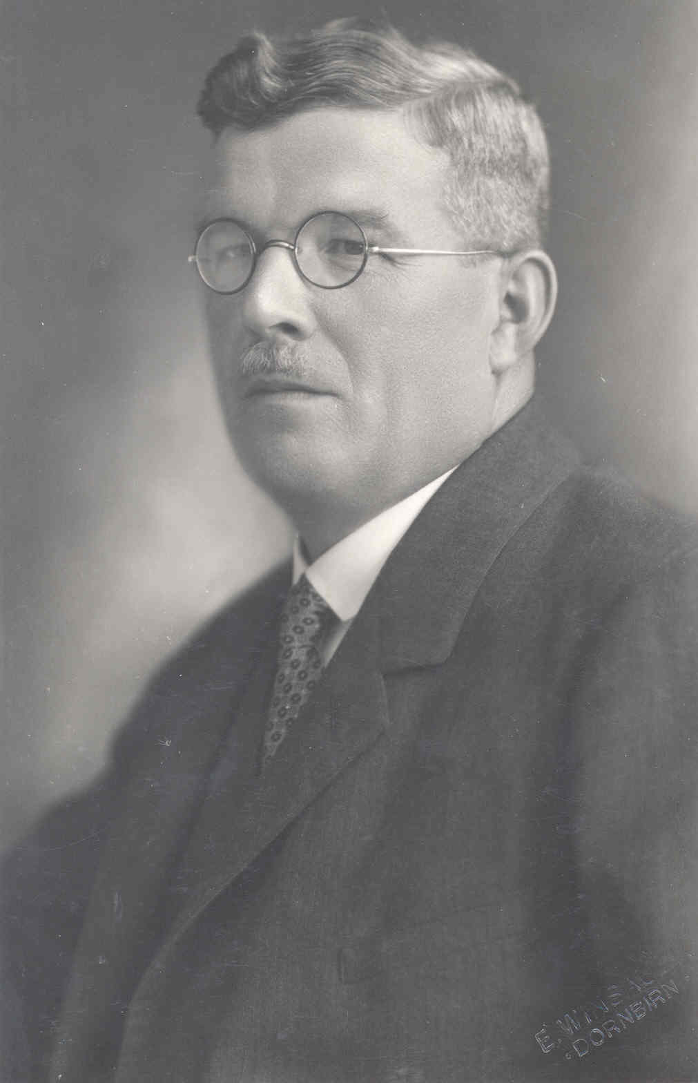 Josef Rüf, Member of the Landtag of Vorarlberg and mayor of Dornbirn.